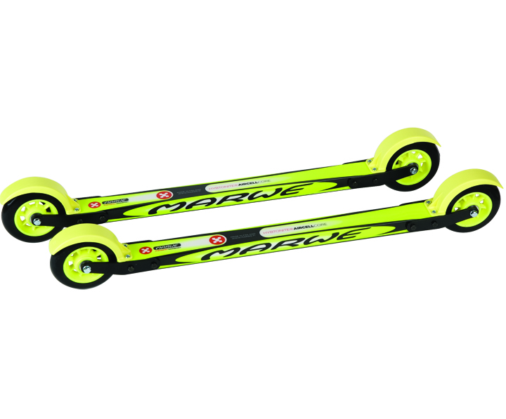 Marwe uses composite frames for flex with aluminum forks bolted on